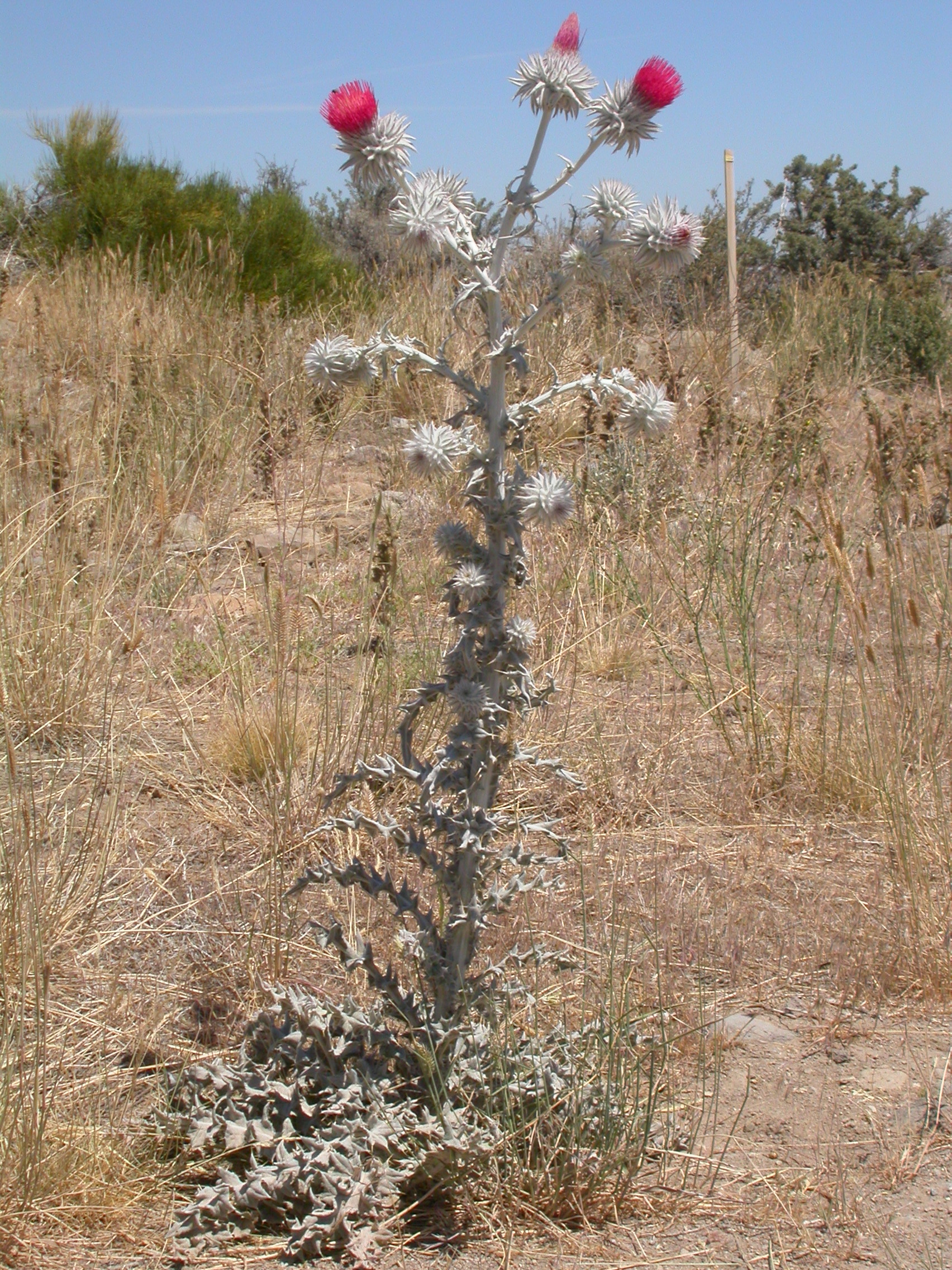 Although native and dry site inhabiting, this thistle seems to confine itself to disturbed sites and does not occur in adjacent undisturbed sagebrush steppe.